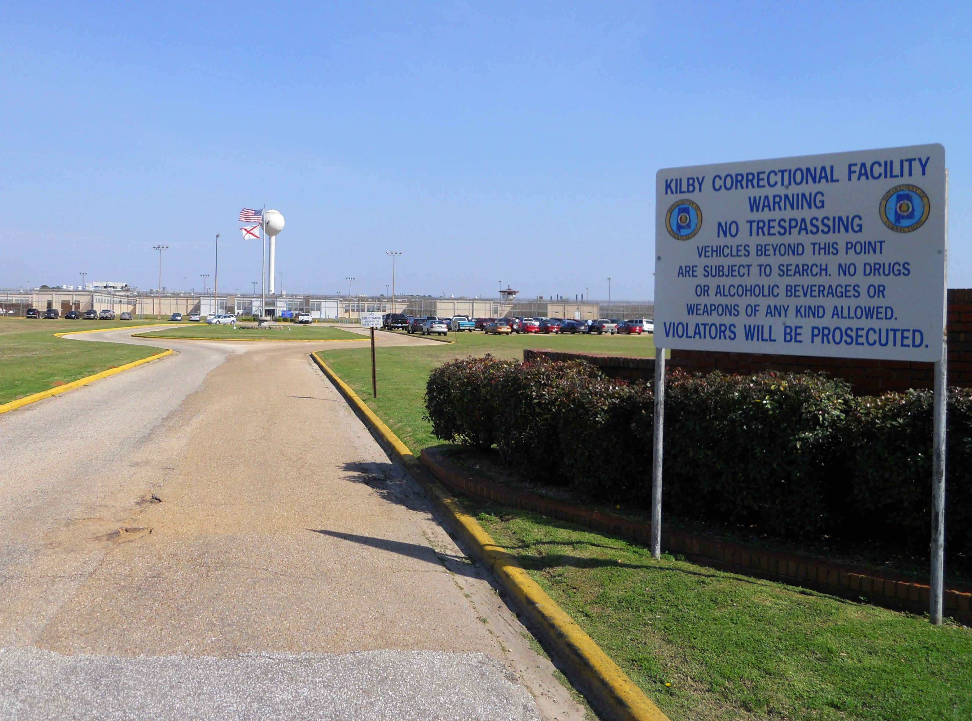 This is a photograph of the front entrance of Kilby Correctional Facility located in Mt. Meigs, Alabama.